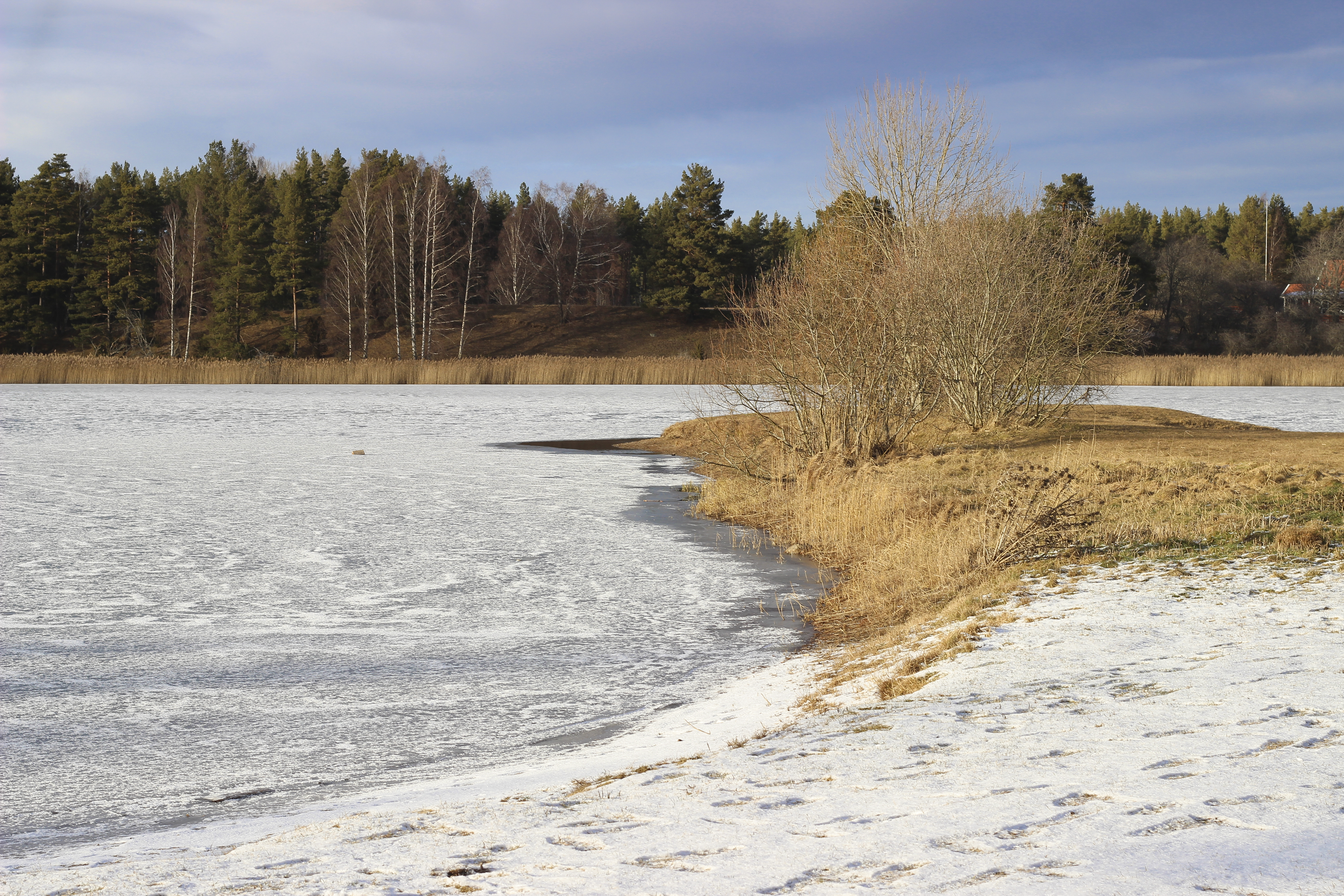 A photo of the lake during winter in the nature reserve called "skogssjöområdet", Mjölby.